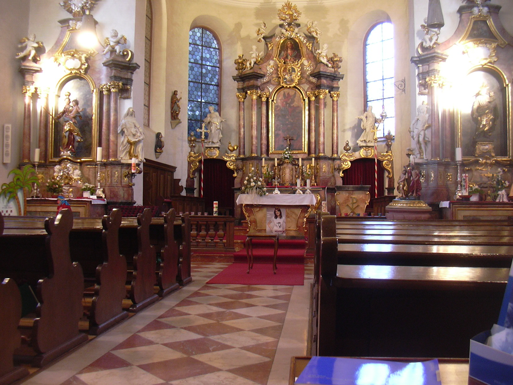 St. Michael, interior of church by Balthasar Neumann, Hofheim/Ried